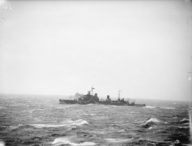 A British Cruiser Keeps in Fighting Trim. April 1943, on Board HMS Rodney, in the Western Mediterranean. The Fiji class cruiser HMS NEWFOUNDLAND, at target practice.